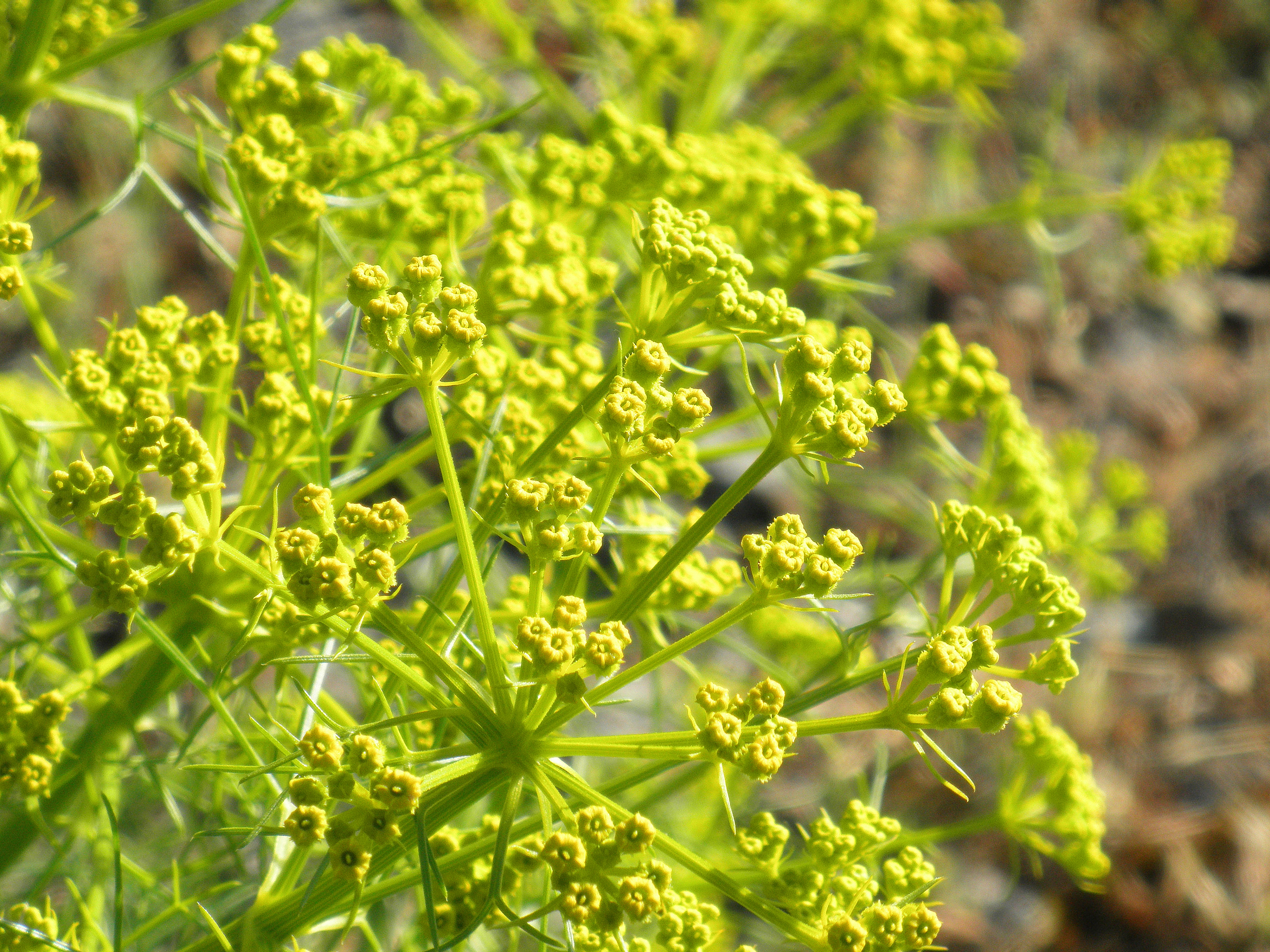 Cachrys sicula inflorescence close up, Campo de Calatrava, Spain